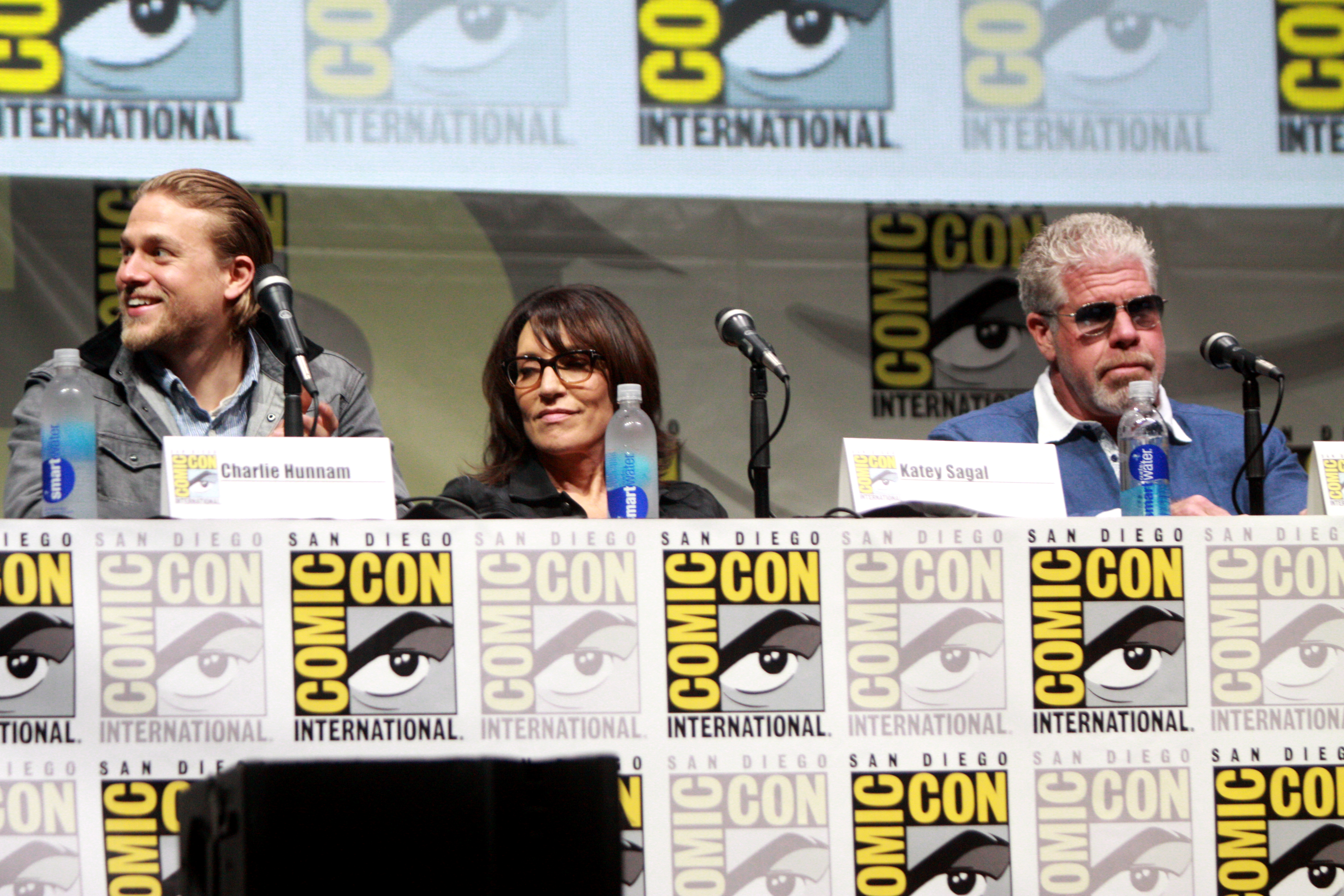 Charlie Hunnam, Katey Sagal and Ron Perlman speaking at the 2013 San Diego Comic Con International, for "Sons of Anarchy", at the San Diego Convention Center in San Diego, California.